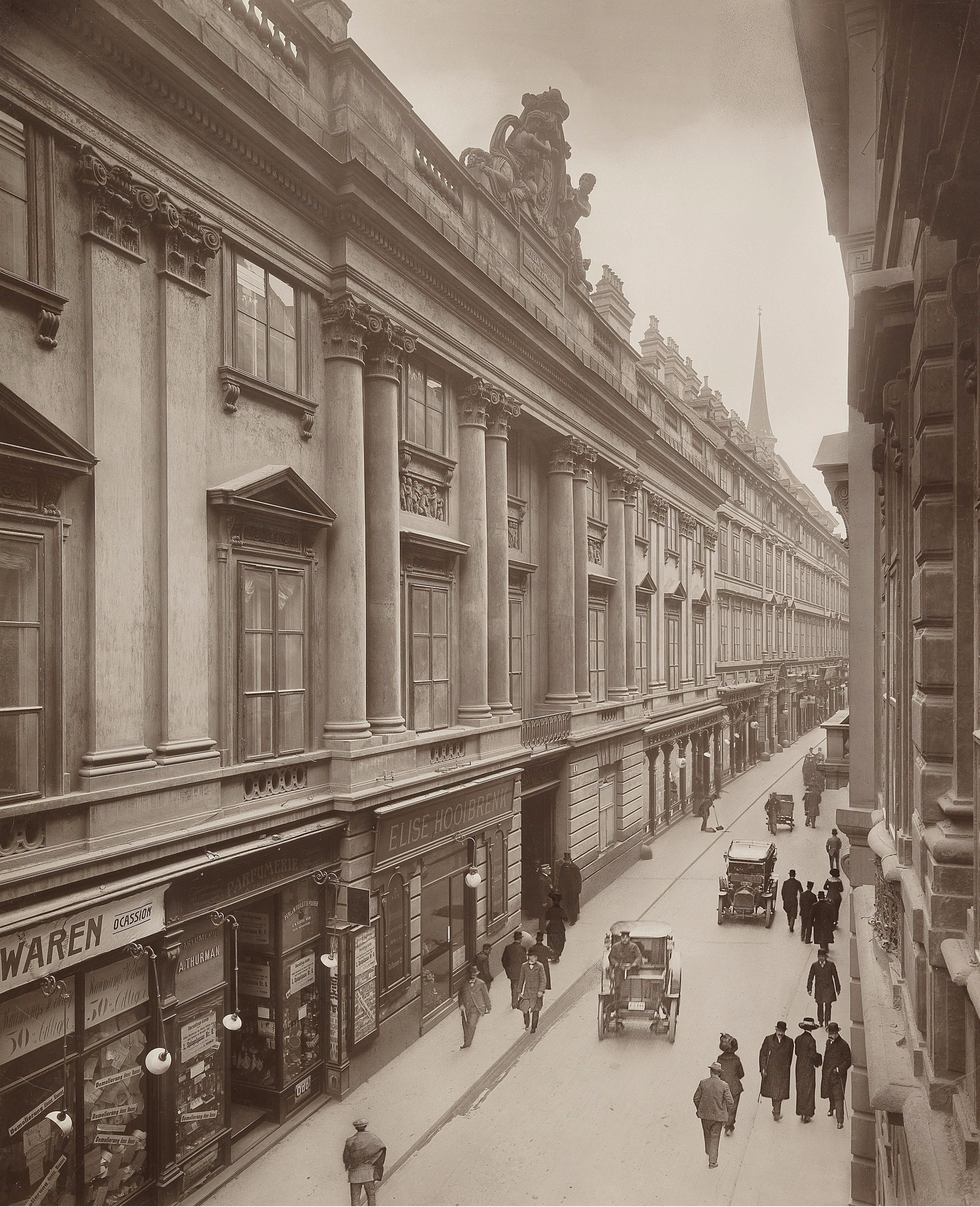 Palais Liechtenstein, Herrengasse 6–8, 1010 Vienna